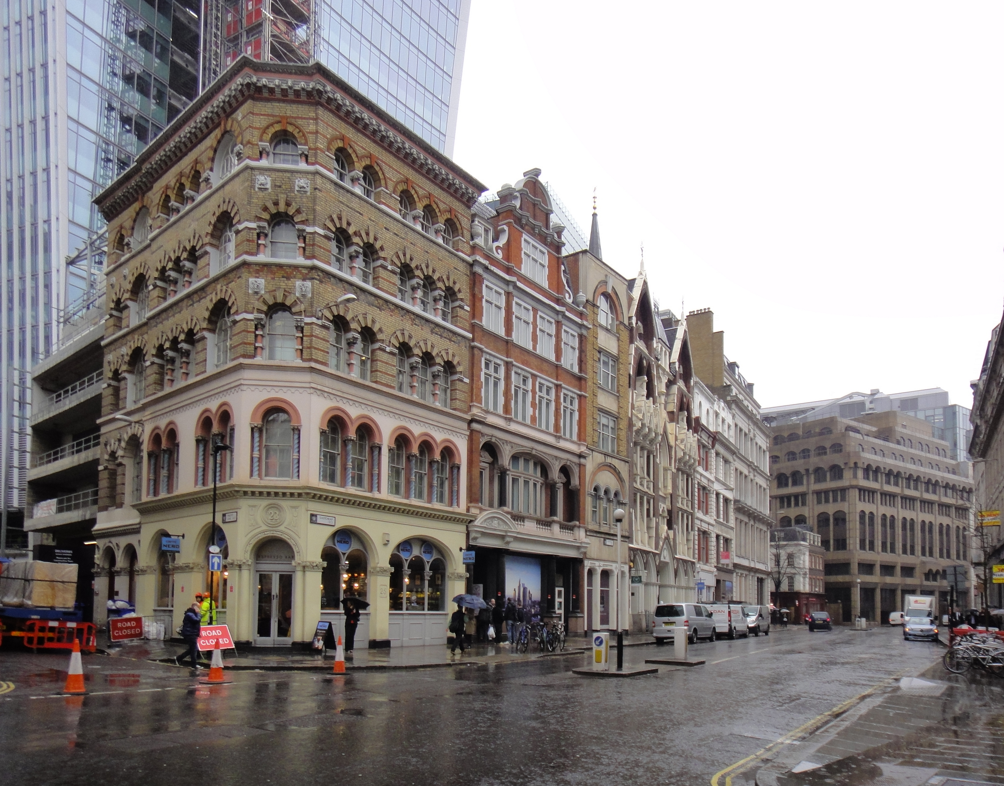 Corner Eastchap/Philpot Lane, City of London. Houses of the Eastcheap conservation area. The corner buidling - 23 Eastcheap is the former building of Hunt & Crombie spice merchants